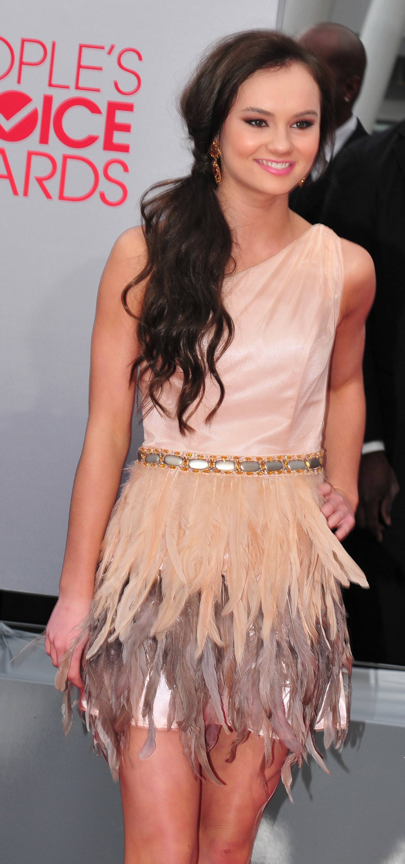 Madeline Carroll on the red carpet at the 38th People's Choice Awards on January 11, 2012, at the Nokia Theatre in Los Angeles, California